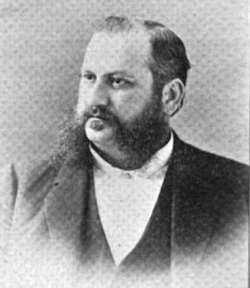 James Buchanan, U.S. representative from New Jersey